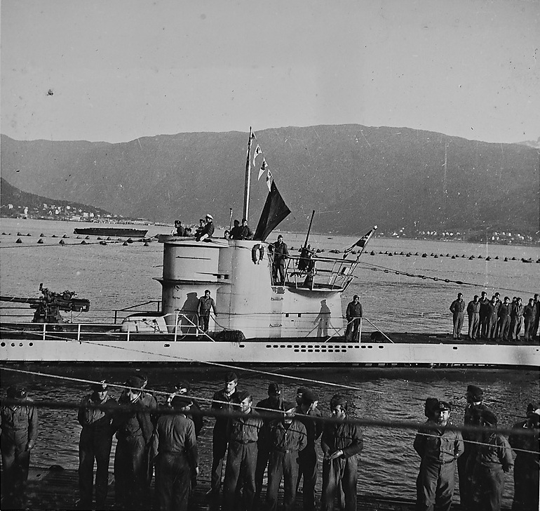 Image from "Photo Album from Terboven's journey to Nothern Norway and Finland 10–27 July 1942" (Mit dem Reichskommissar nach Nordnorwegen und Finnland 10. bis 27. Juli 1942), 375 images uploaded to www. by Riksarkivet (National Archives of Norway) 2012. See scanned album here